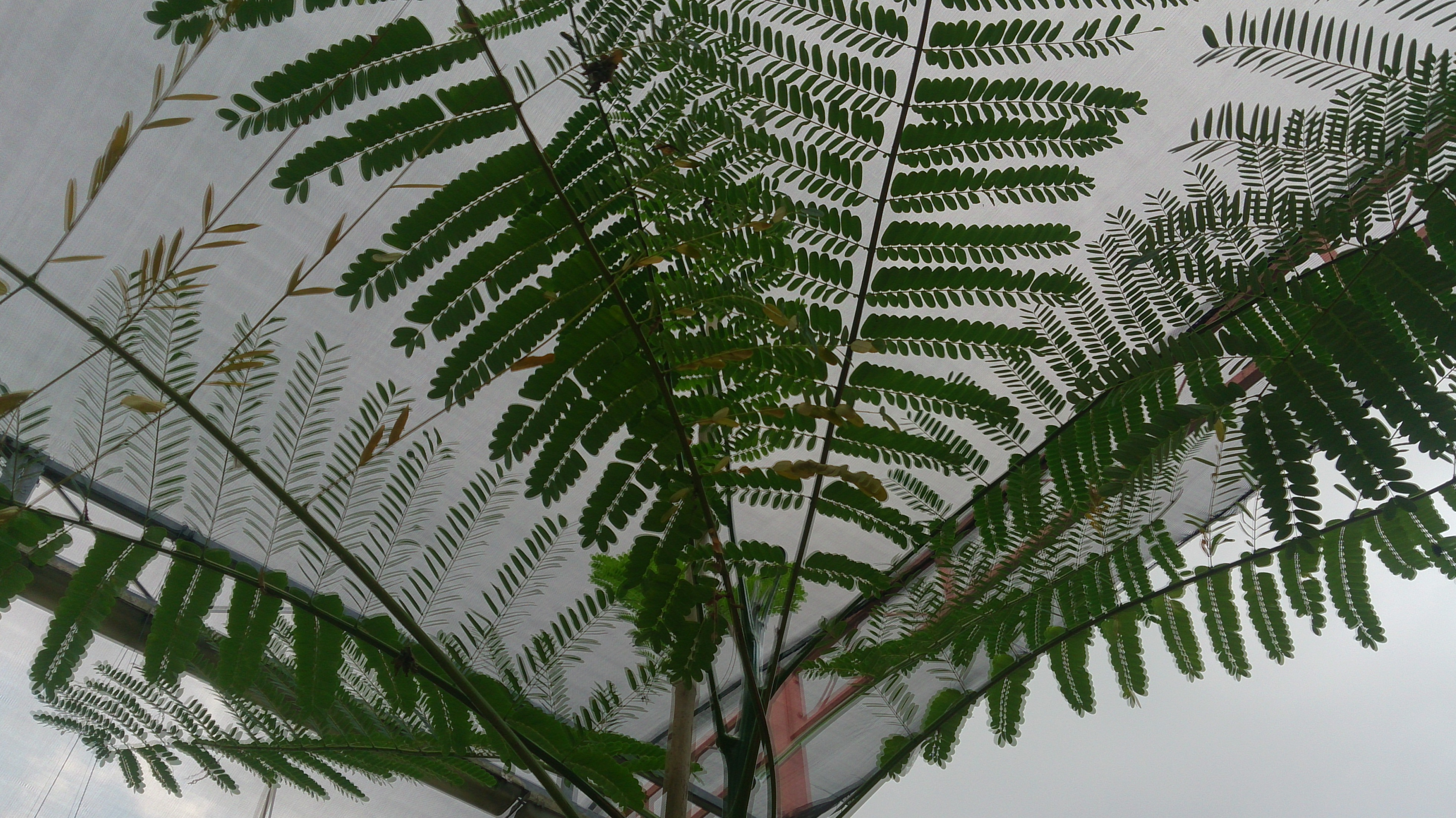 Schizolobium parahybum. Common name: Tower Tree.